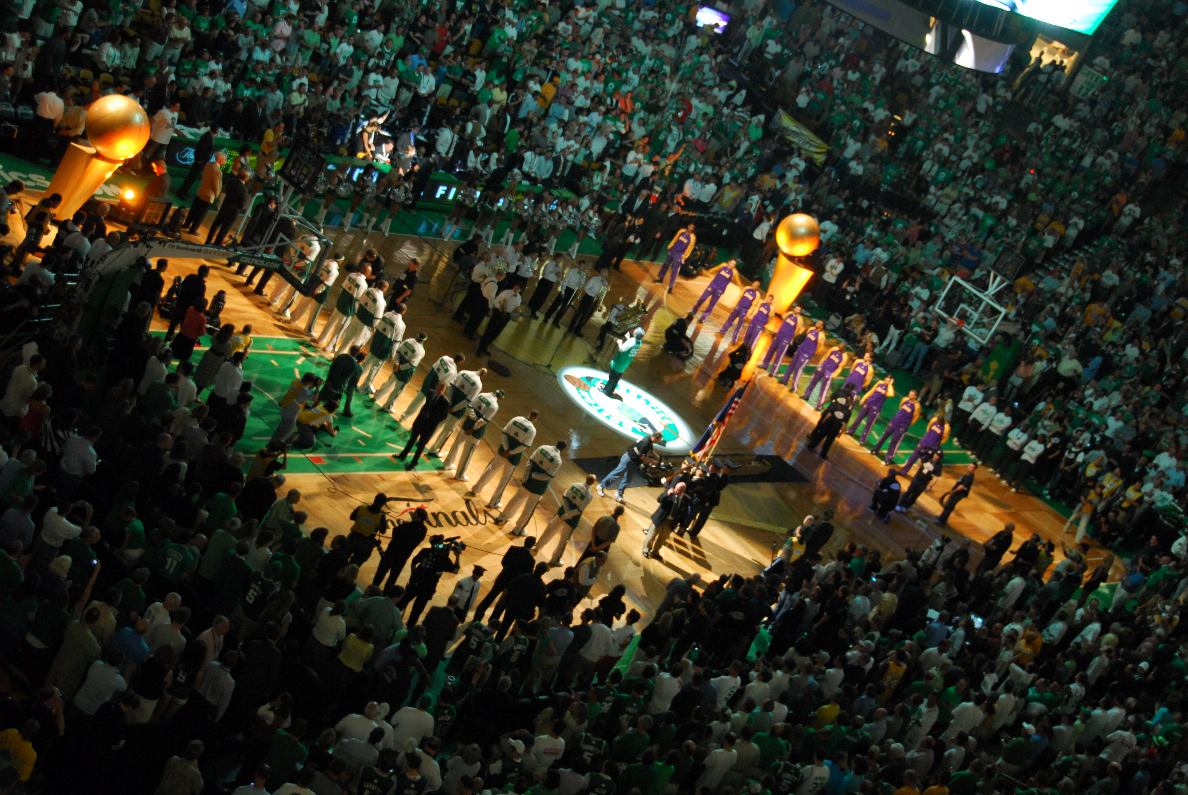 like this angle